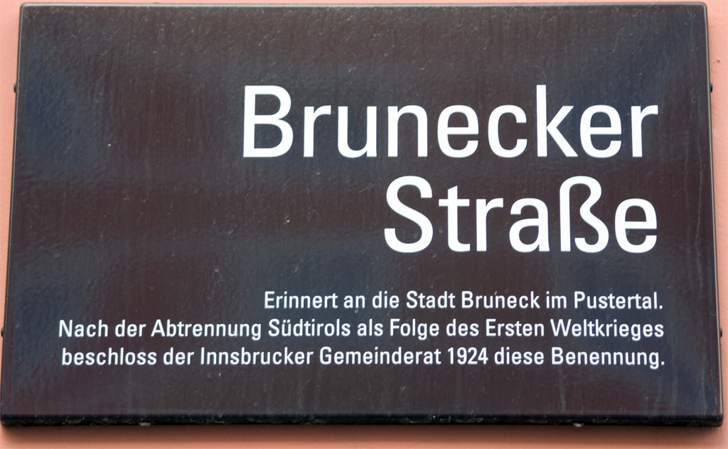 Brunecker Straße in Innsbruck, commemorating the separation of the County of Tyrol after World War I